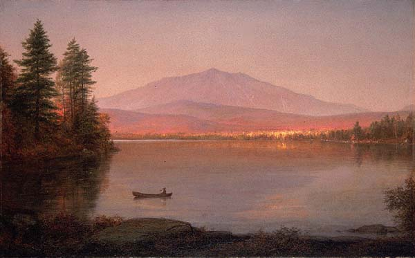 Mount Katahdin from Lake Millinocket — near Millinocket, in Penobscot County, central Maine.